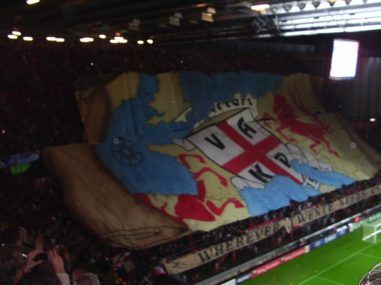 FC Twente fans before FC Twente - Internazionale